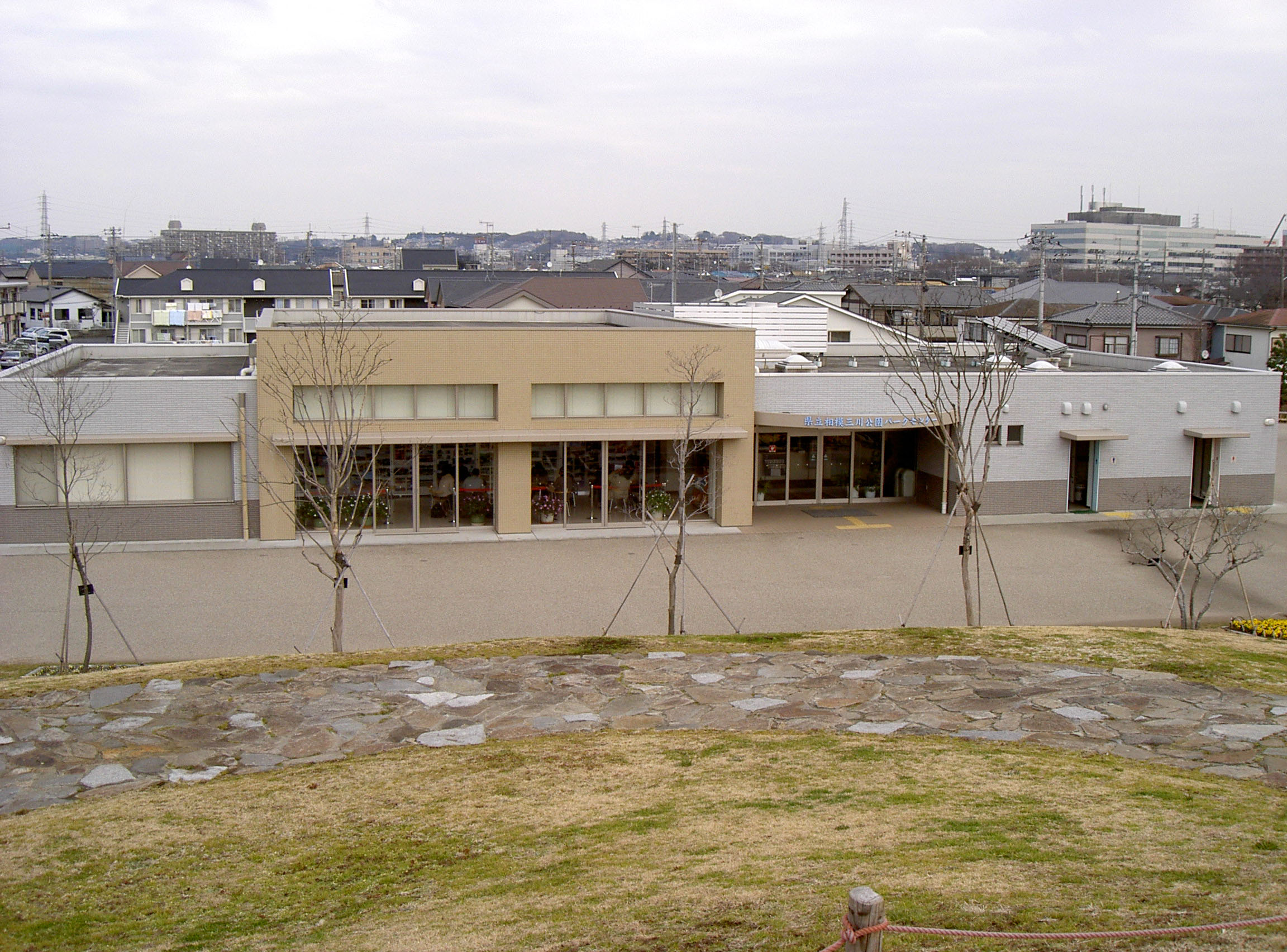 Sagami Sansen Koen, a park in Ebina, Kanagawa, Japan.